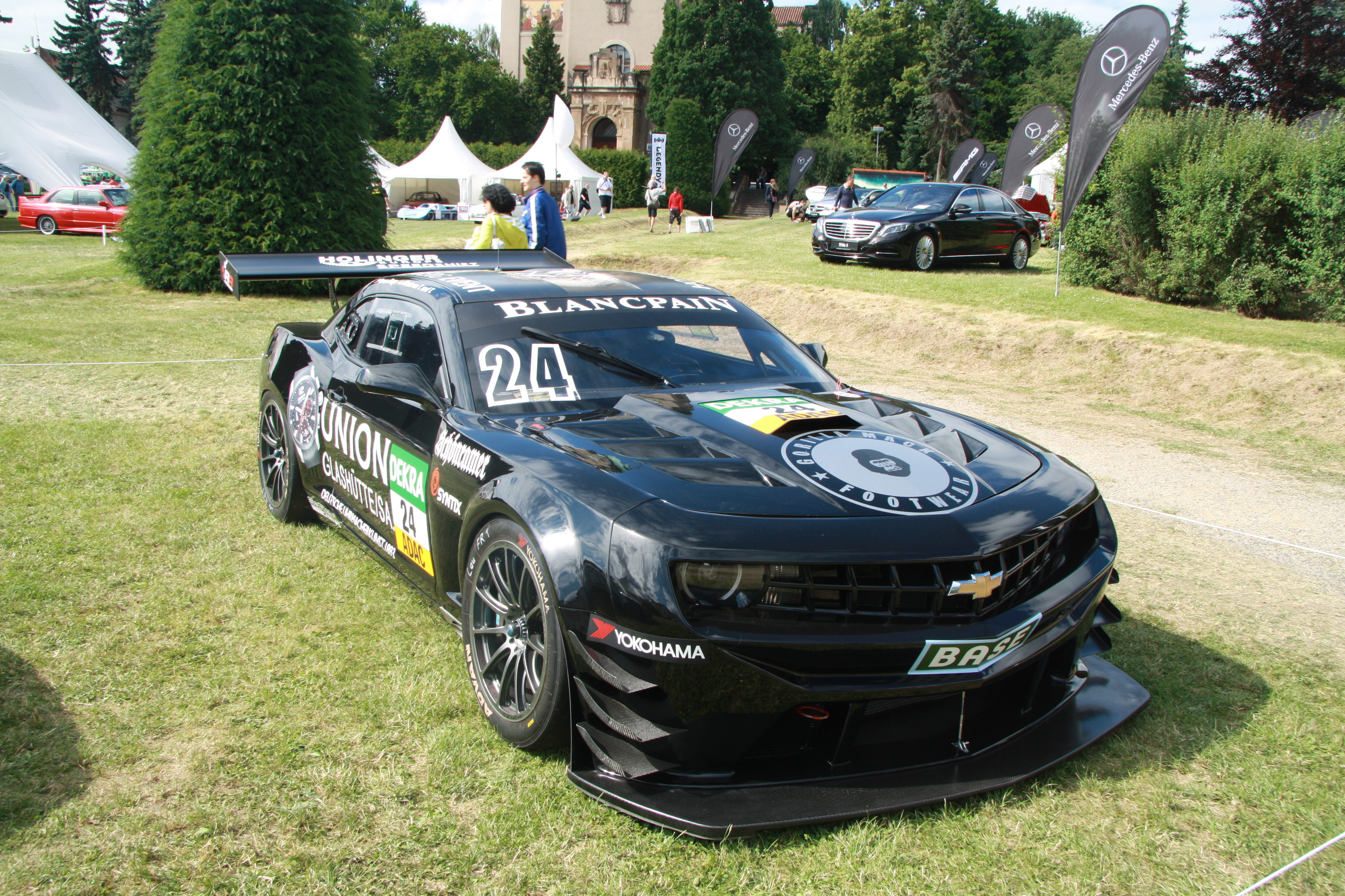 Chevrolet Camaro Racing edition at Legendy 2014.